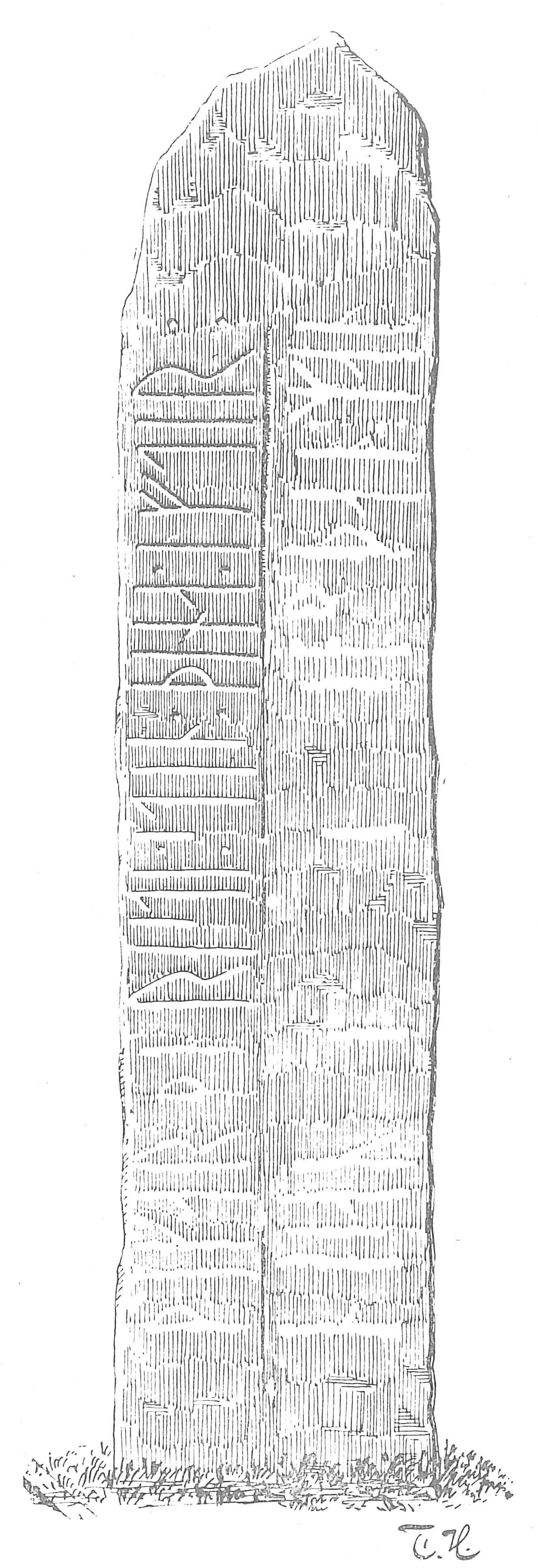 Fig. 2. Drawing of Helland II in 1902 by Tor Helliesen (1903, 68)